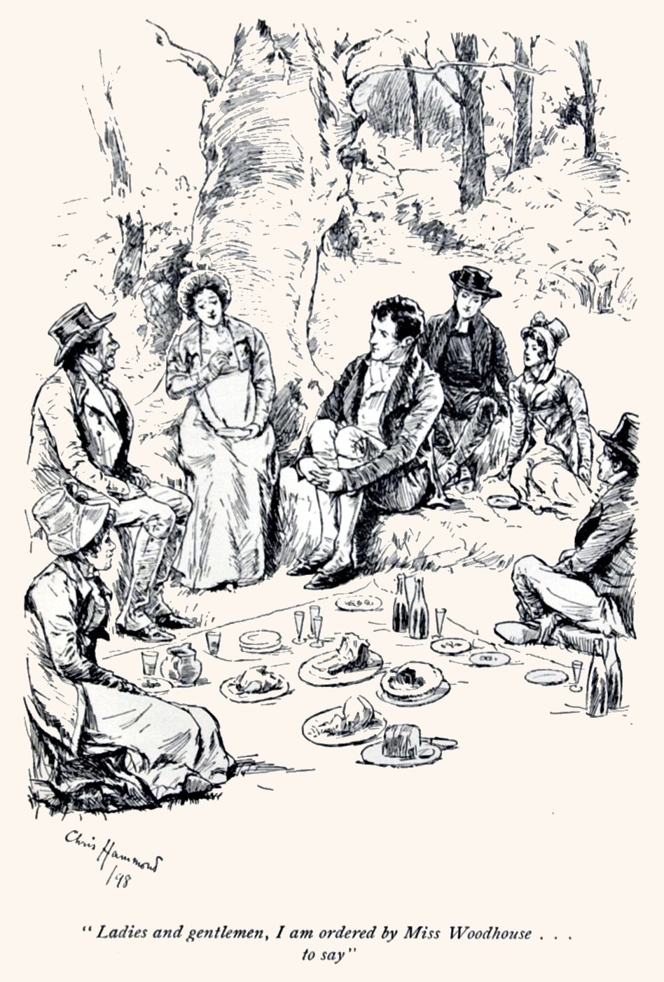 Emma (Jane Austen Novel) ch 43 : during the picnic at Box-Hill, Franck Churchill initiates conversation, saying "Ladies and gentlemen, I am ordered by Miss Woodhouse...to say" .